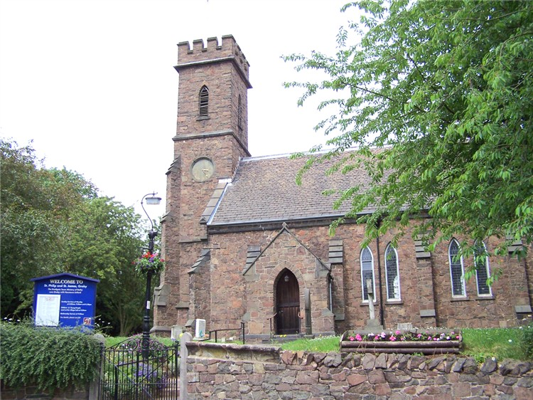 Groby parish church taken by kev747